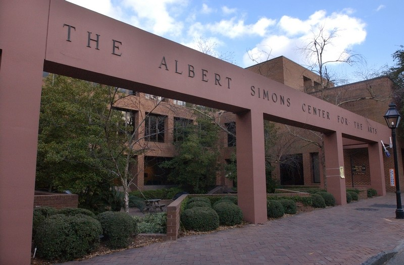 The Albert Simons Center for the Arts houses the School of the Arts at the College of Charleston